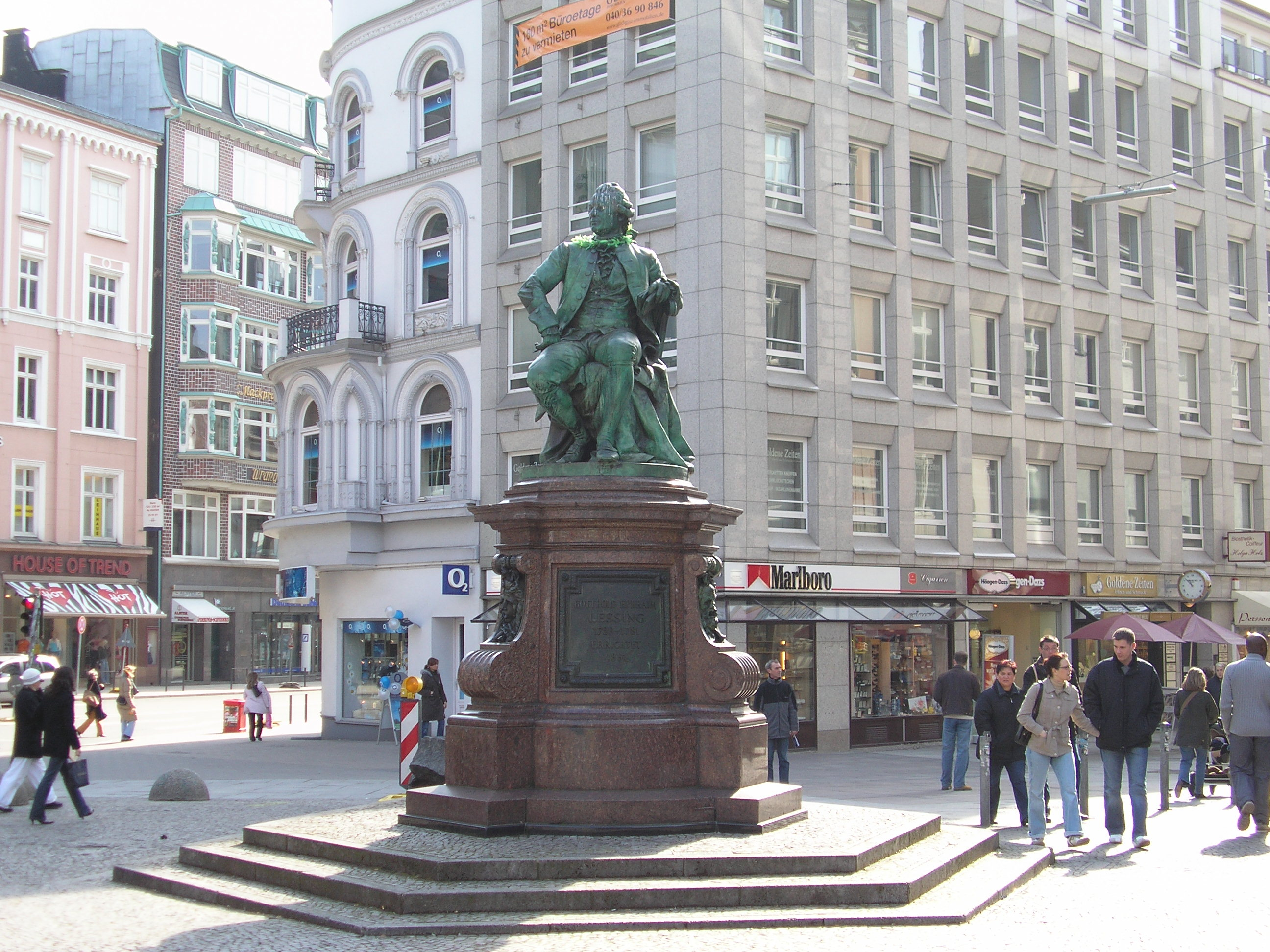 Lessing Statue, Hamburg, Germany.